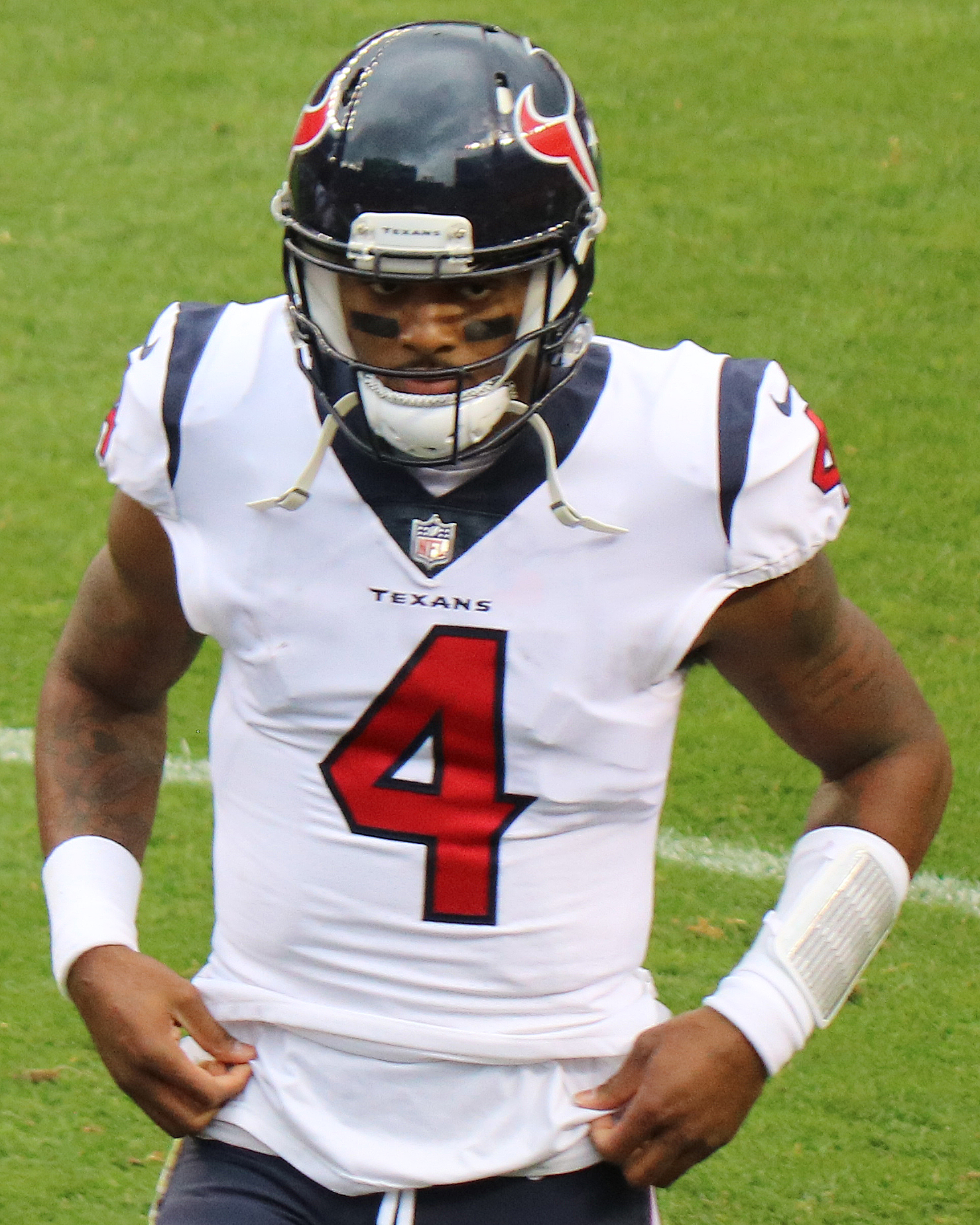 Deshaun Watson, a National Football League player.